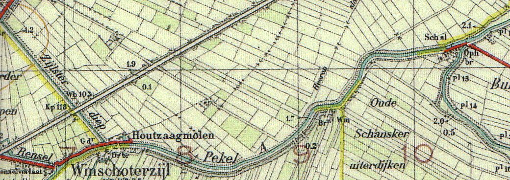 Topografical map from 1933 of downstream part of he Pekel A